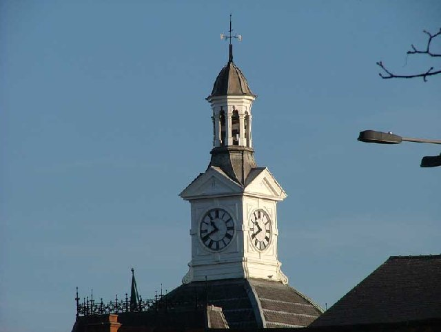 Town Hall Clock Retford. Until recently the clock had proper chimes but they are now electronic